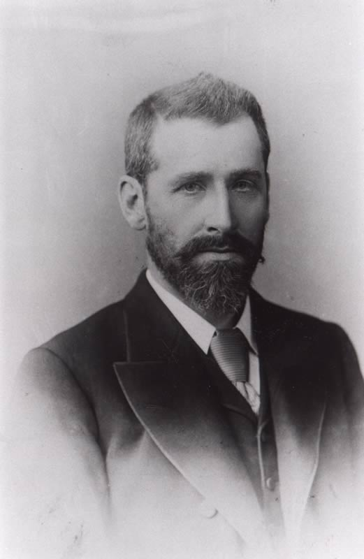 Portrait of Andrew Inglis Clark